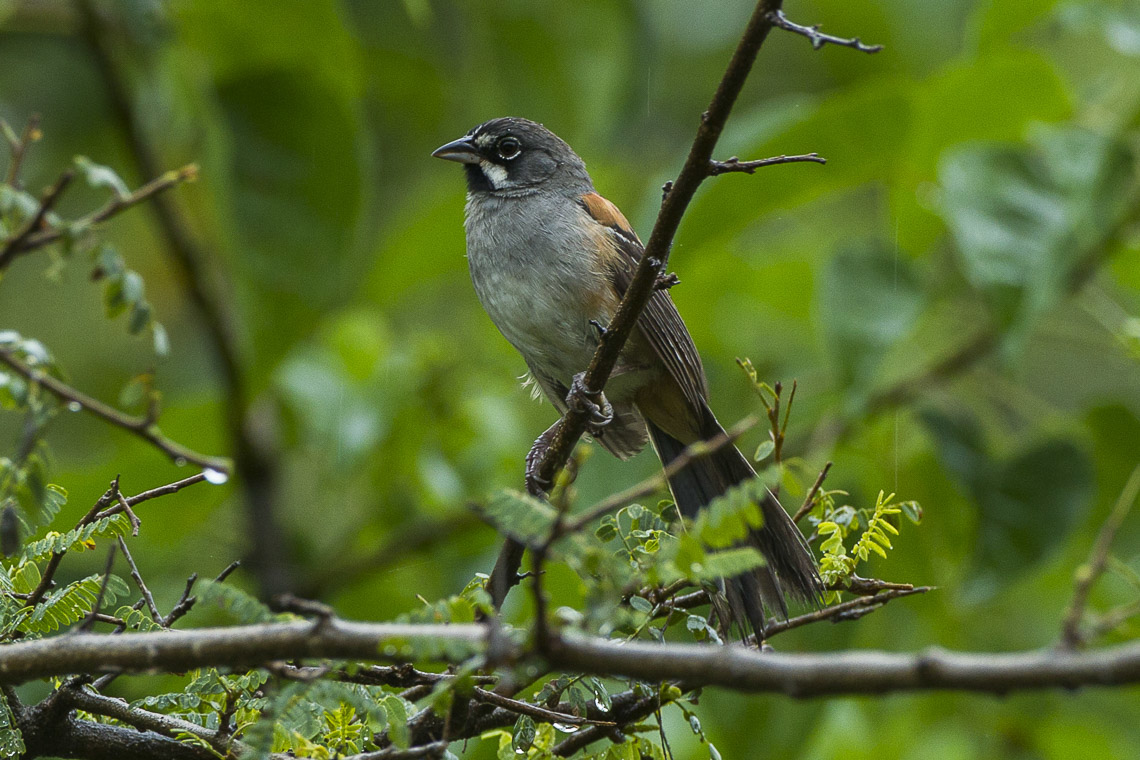 Bridled Sparrow - Oaxaca - Mexico_S4E9190